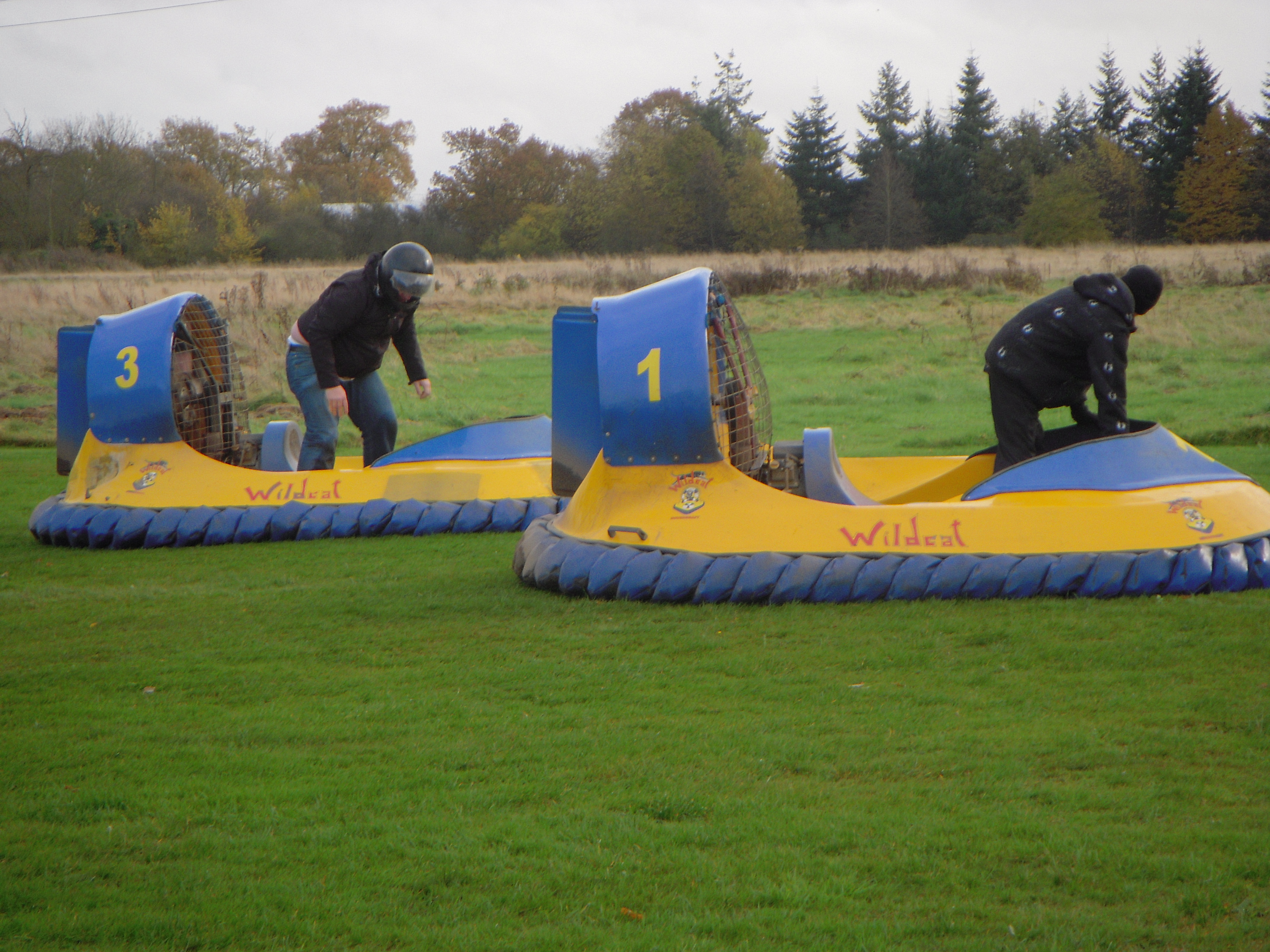 single seater racing hovercrafts